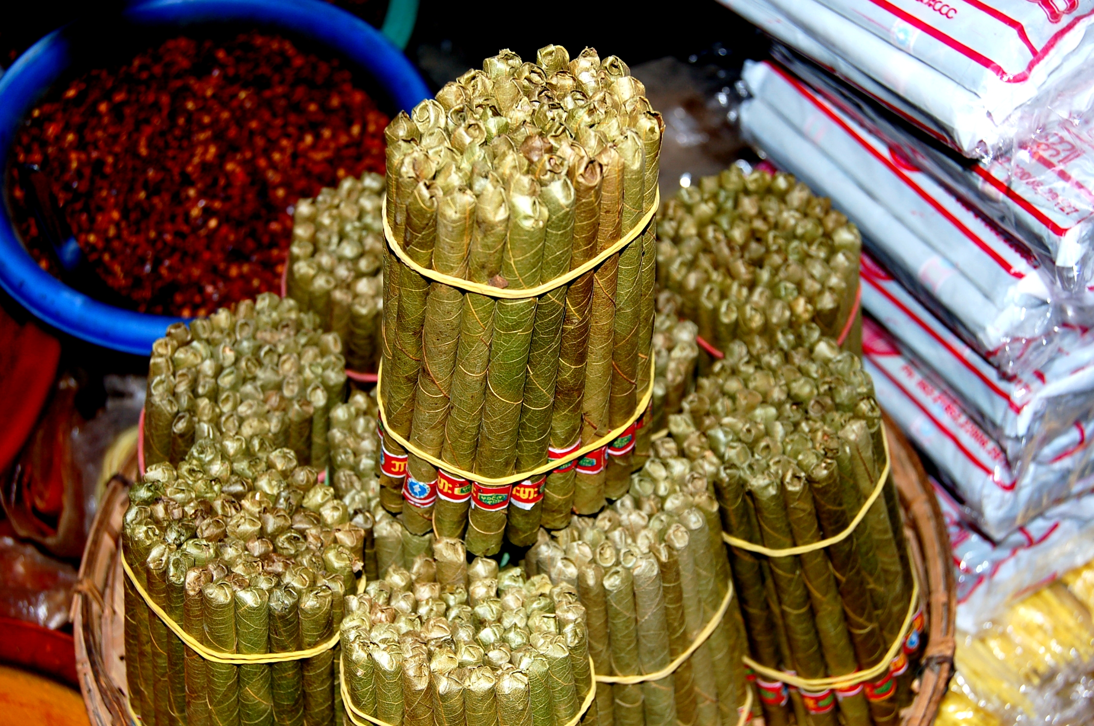 Cheroot cigars in Myanmar